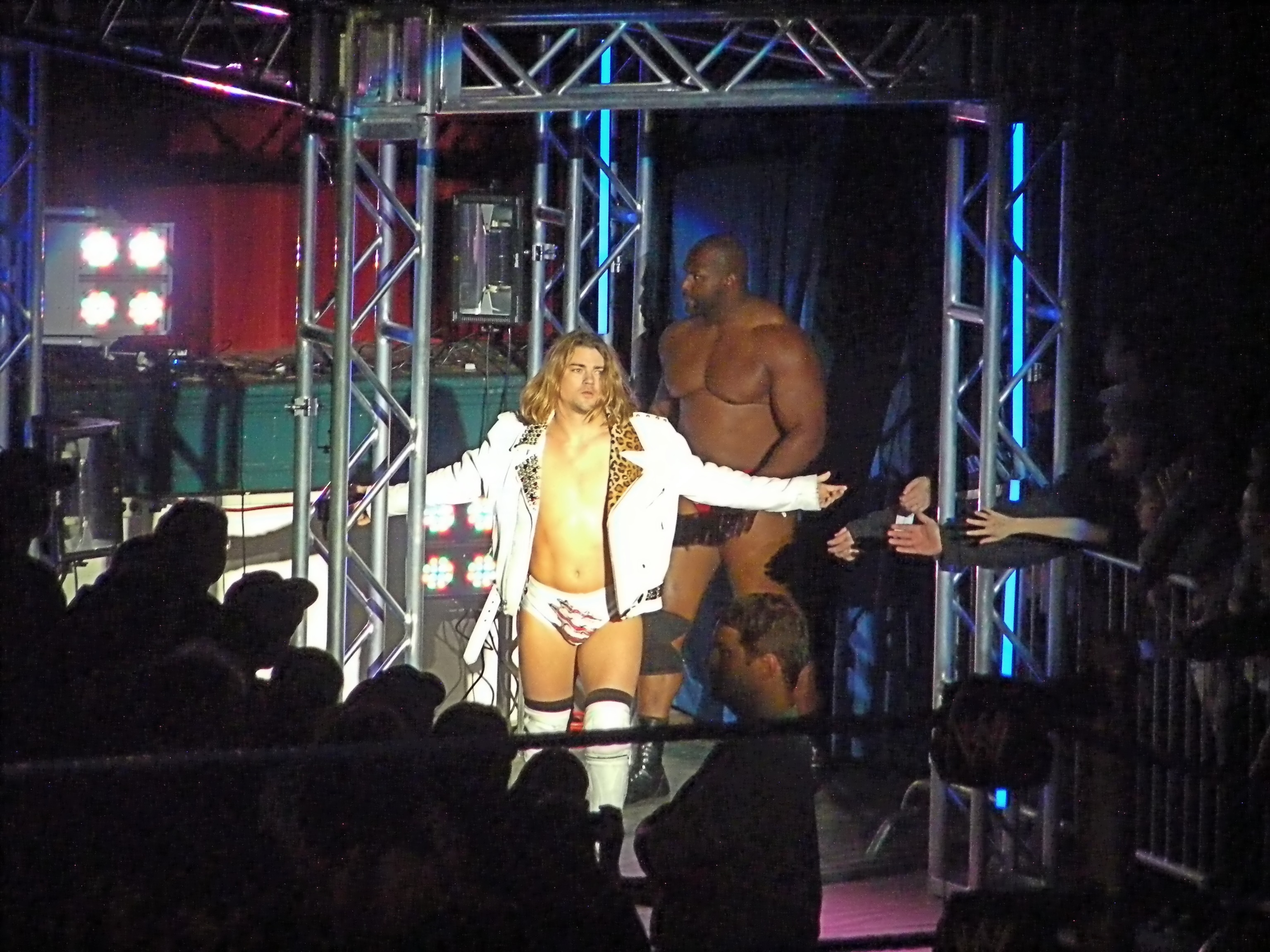 Professional wrestlers Brian Kendrick and Ezekiel Jackson